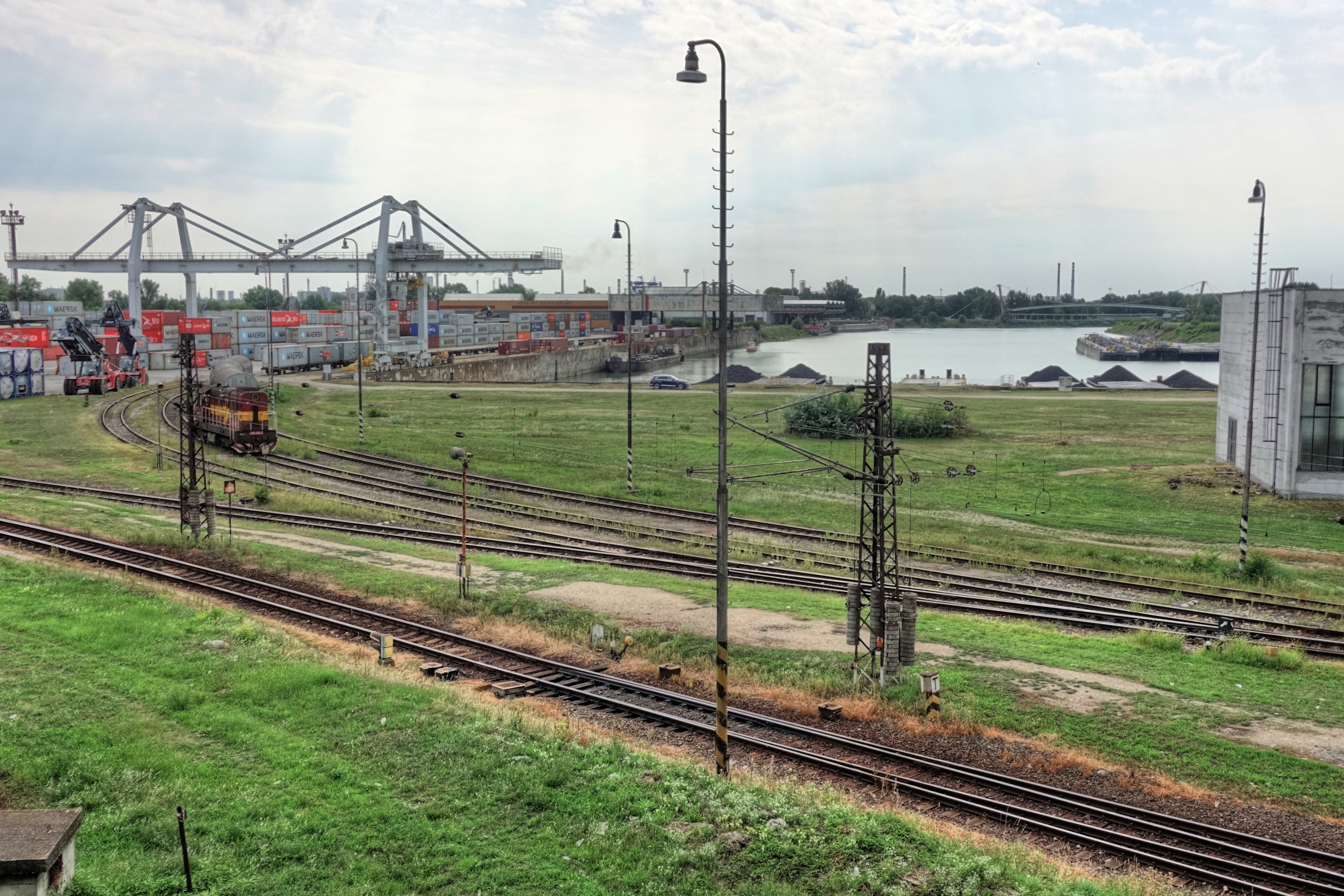 Port pool Pálenisko, container dock and portal crane. Tone-mapped image from 9 pictures with 0.3 EV shift.